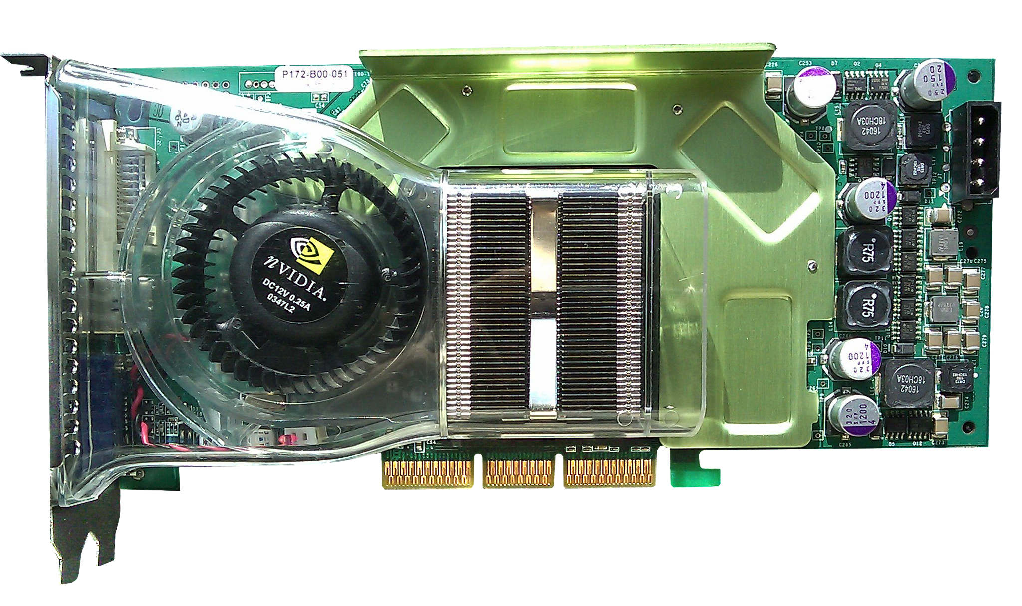 NVIDIA GeForce FX 5950 Ultra Graphic card